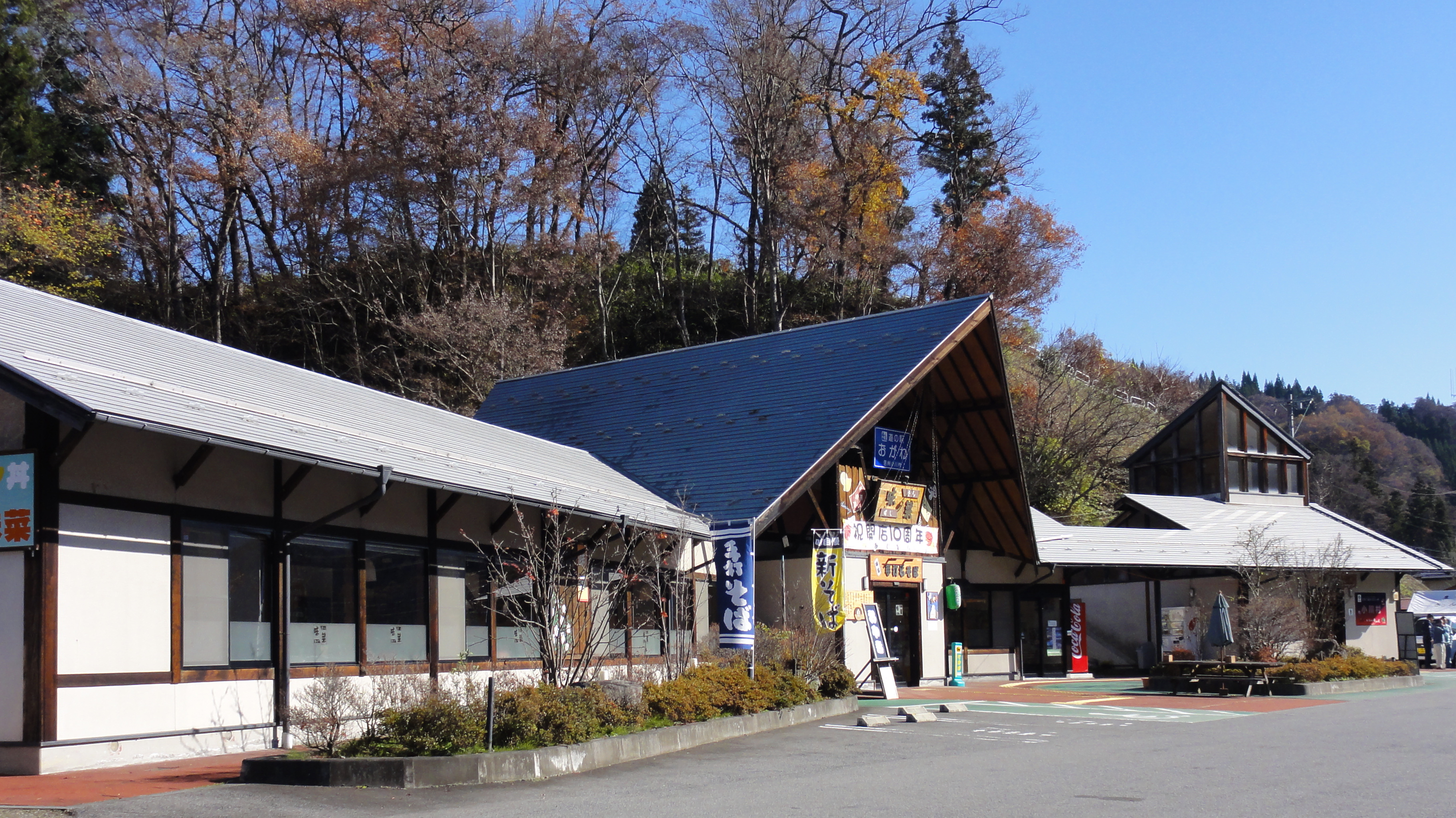 Road to station Ogawa Nagano prefecture,Japan